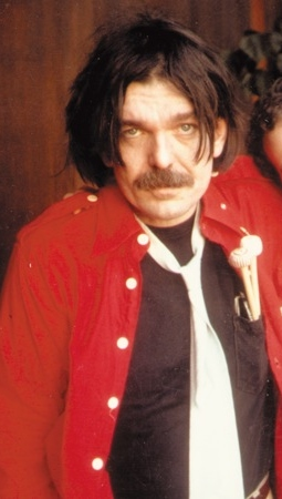 This is simply a cropping of an image ("File:Don Van Vliet and Gary Lucas, "Doc at the Radar Station" sessions, Soundcastle Studios Glendale Ca. May 1980.jpeg") uploaded by MontereyDiver. It now shows only Beefheart's face and clothed upper body.